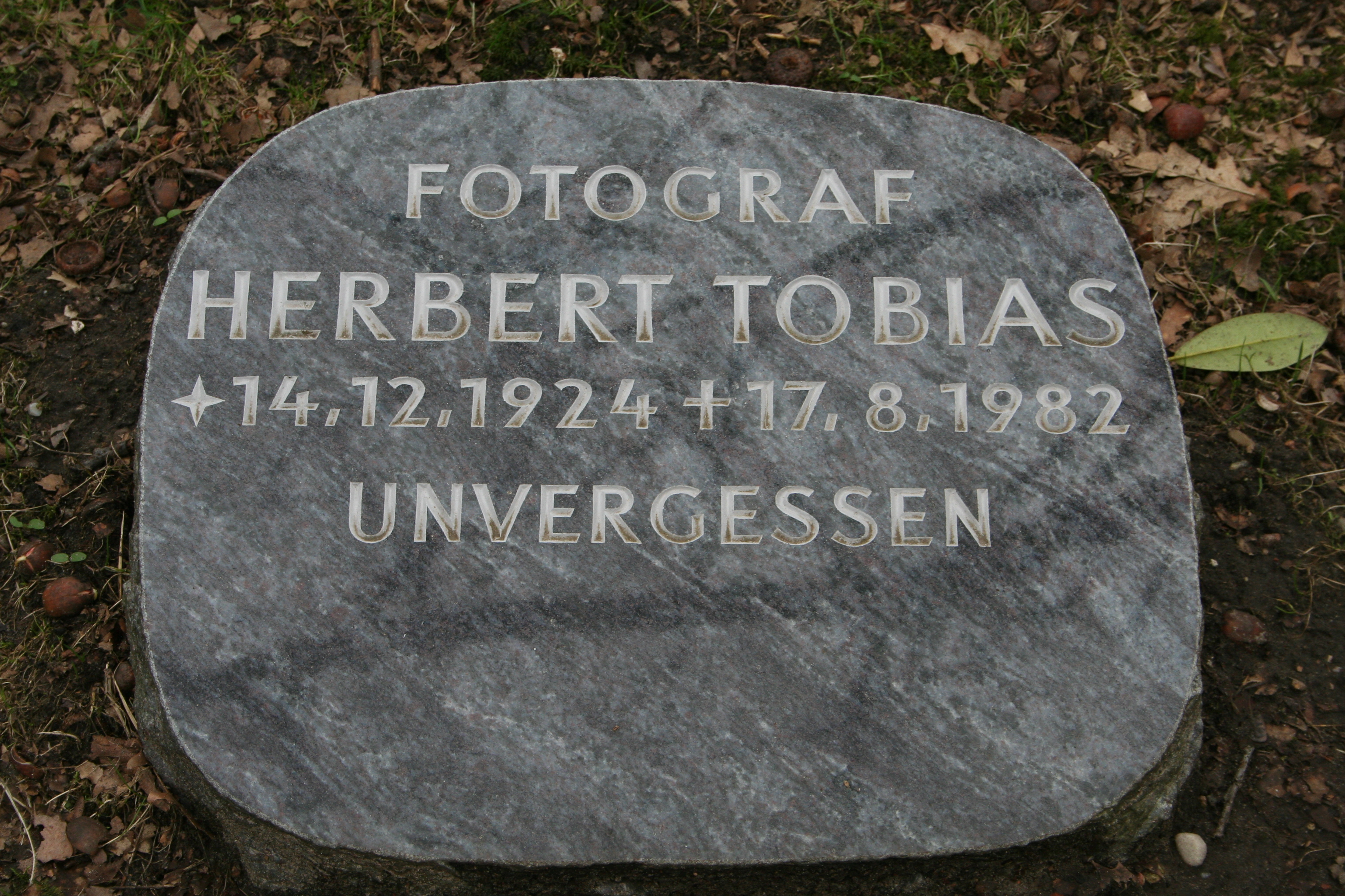 Photographer Herbert Tobias, tomb on the main-cemetery in Hamburg-Altona